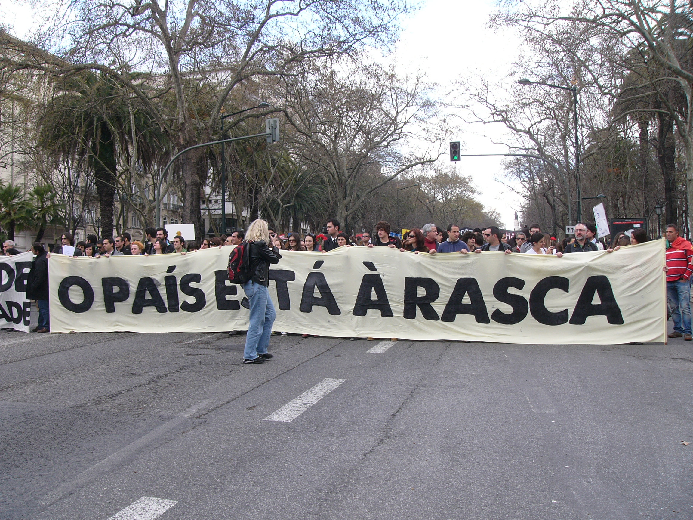 One of the two frontal banners during the Geração à rasca rally, in 12 March 2011, at Avenida da Liberdade, Lisboa, Portugal.